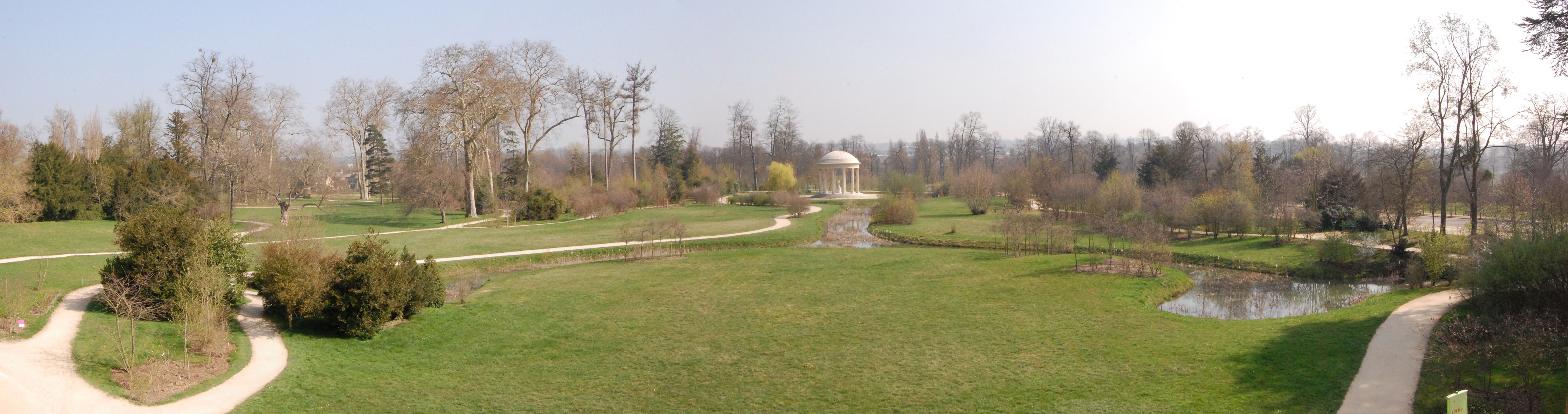 Panorama of the garden of the Petit Trianon with the Temple de l'Amour and the Hameau de la Reine in the background.